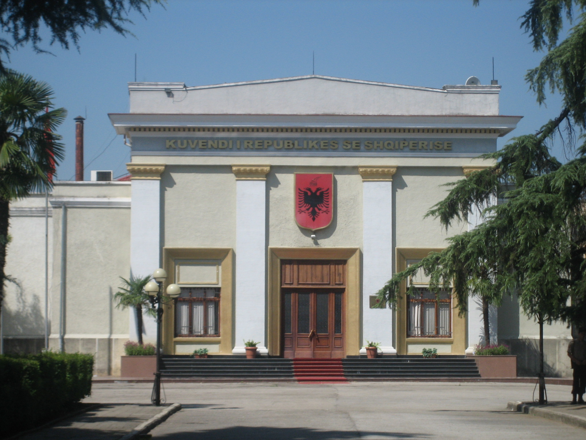 Albanian Parliament Building in Tirana